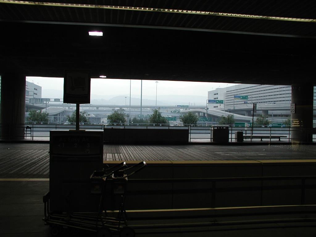 Airport lobby